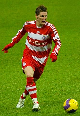 Bastian Schweinsteiger, December 2007.